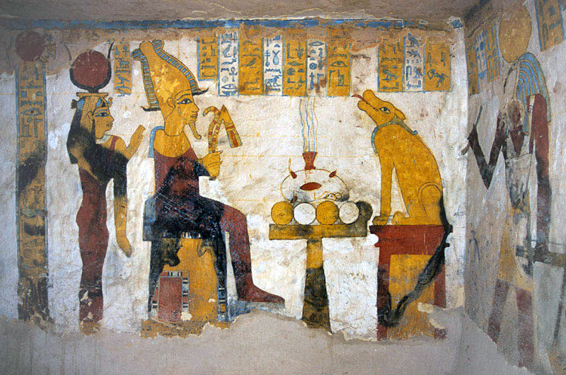 Isis, Osiris and Ammet monster, right rear wall in the sarcophagus chamber of the tomb of Baennentiu, Qarat Qasr Salim, el-Bahriya depression, Libyan desert, Egypt